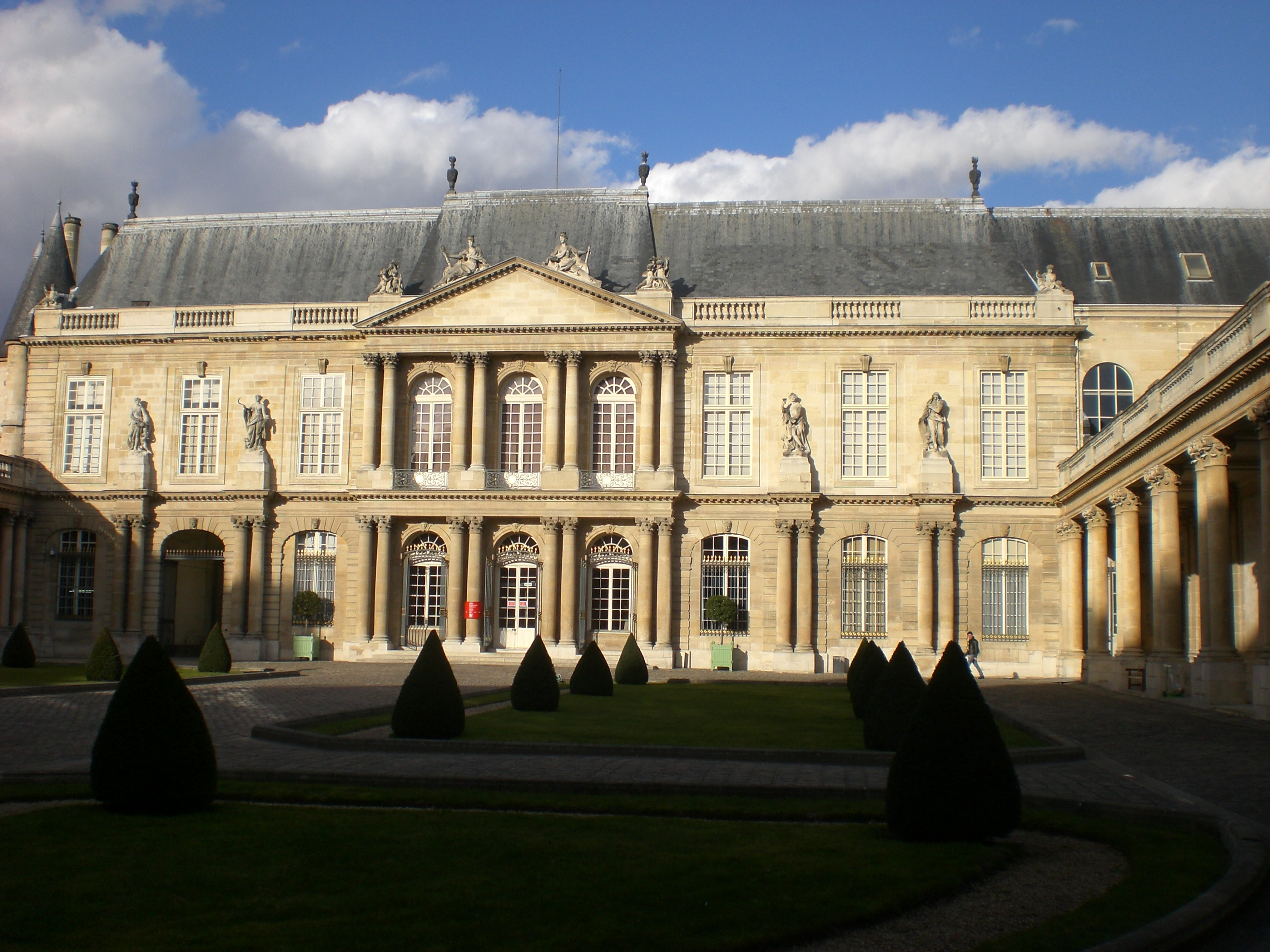 Paris, Hôtel de Soubise, XVIII Century